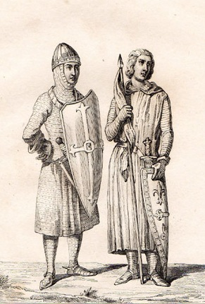 Portraits of Elias I of Maine (1060 -1110) - Odo II, Count of Blois (vers 983-1037)